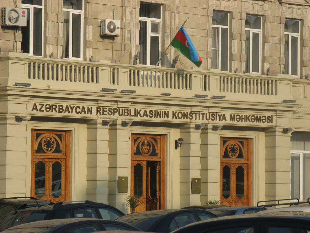 Constitutional Court of the Respublic of Azerbaijan